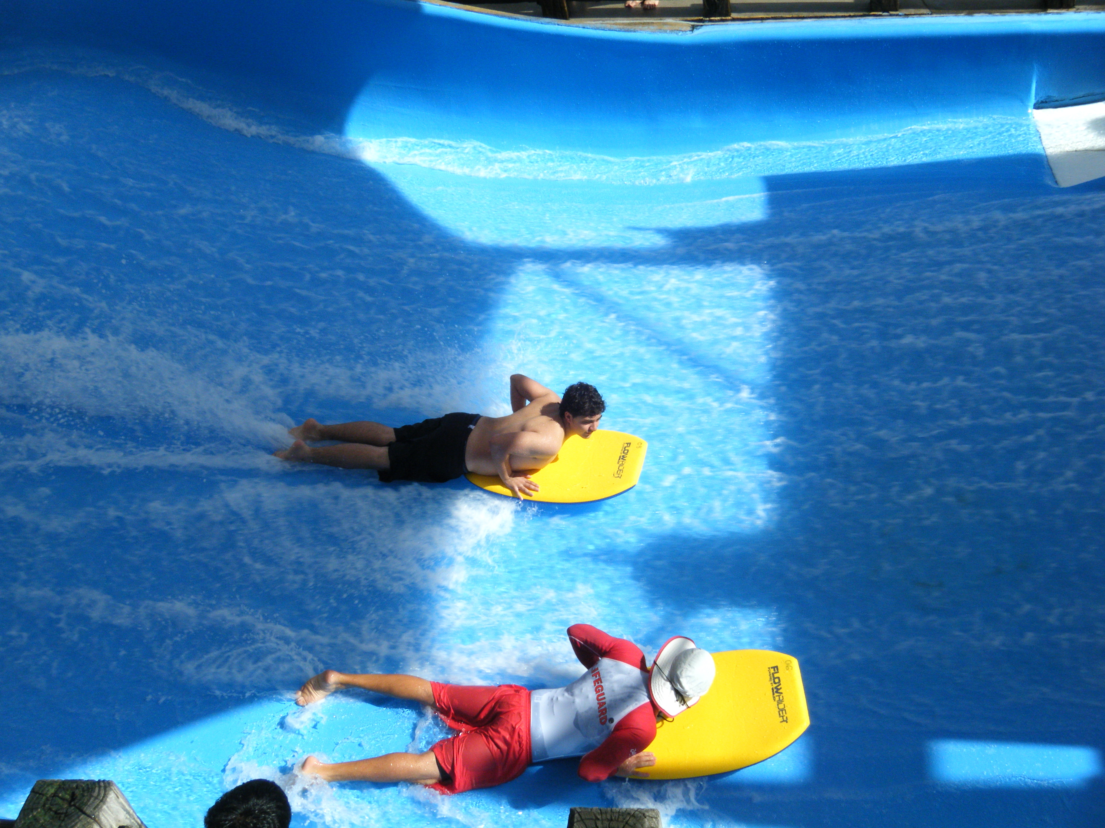 Wild Wadi Waterpark. Dubai, United Arab Emirates. December 2010.